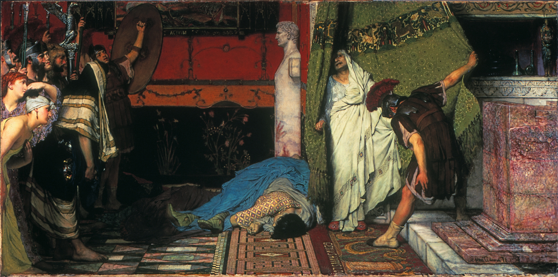 In AD 41, the debauched Roman emperor Caligula was murdered. Gratus, a member of the Praetorian, draws a curtain aside to reveal the terrified Claudius who is hailed as emperor on the spot. Beneath the herm in the background, lie the bodies of Caligula, his wife Caesonia, their young daughter and of a bystander. The blood stains on the herm denote the struggle that has transpired as well as the setting, the Hermaeum, an apartment in the Palace where Claudius had sought refuge.